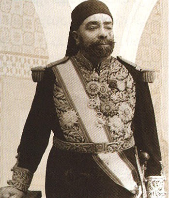 Portrait of Mustafa Dinguizli, a Tunisian politician